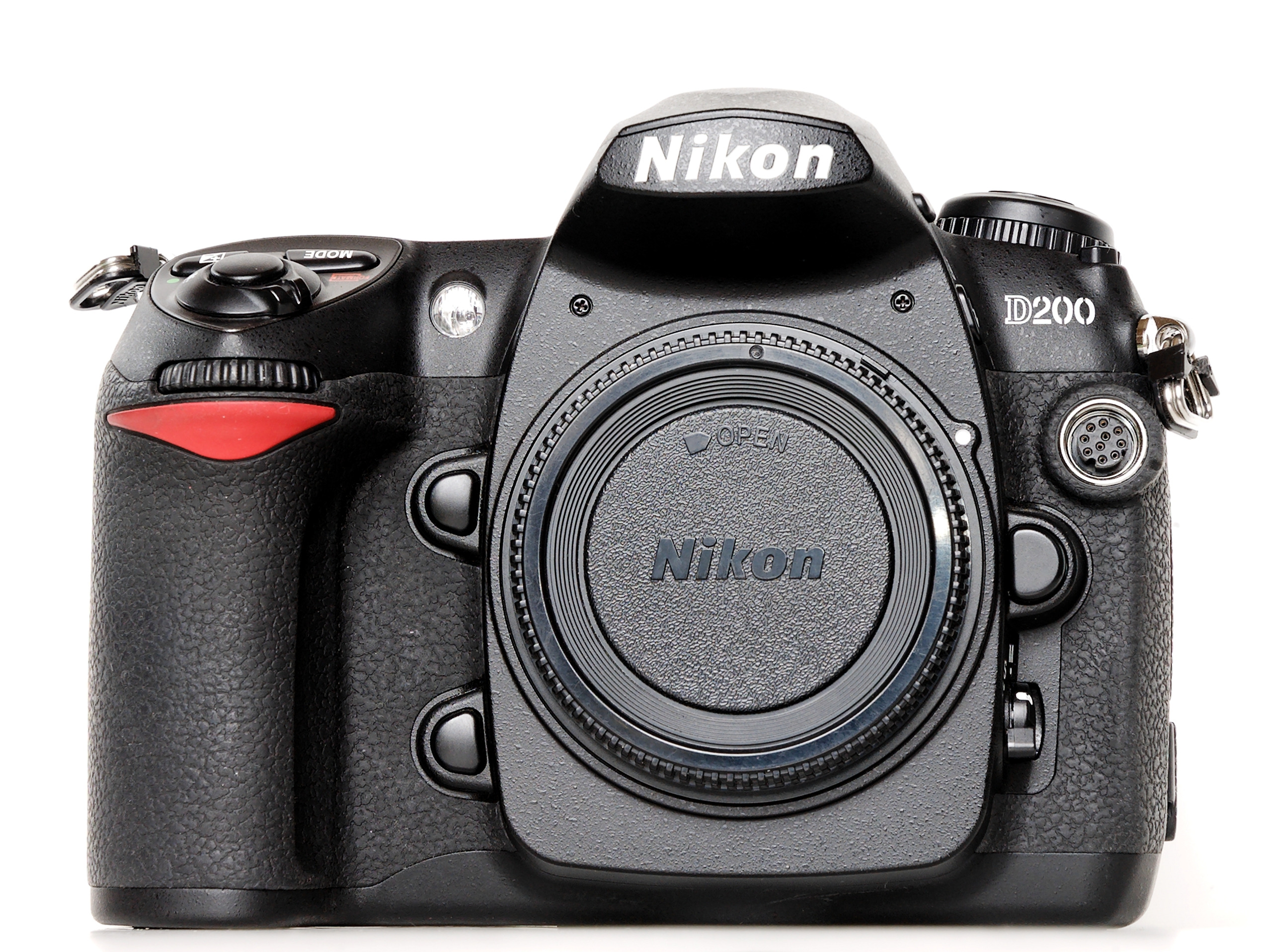 Front of the Nikon D200 dSLR.